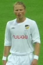 Tapio Heikkilä in 2011 playing for FC Honka